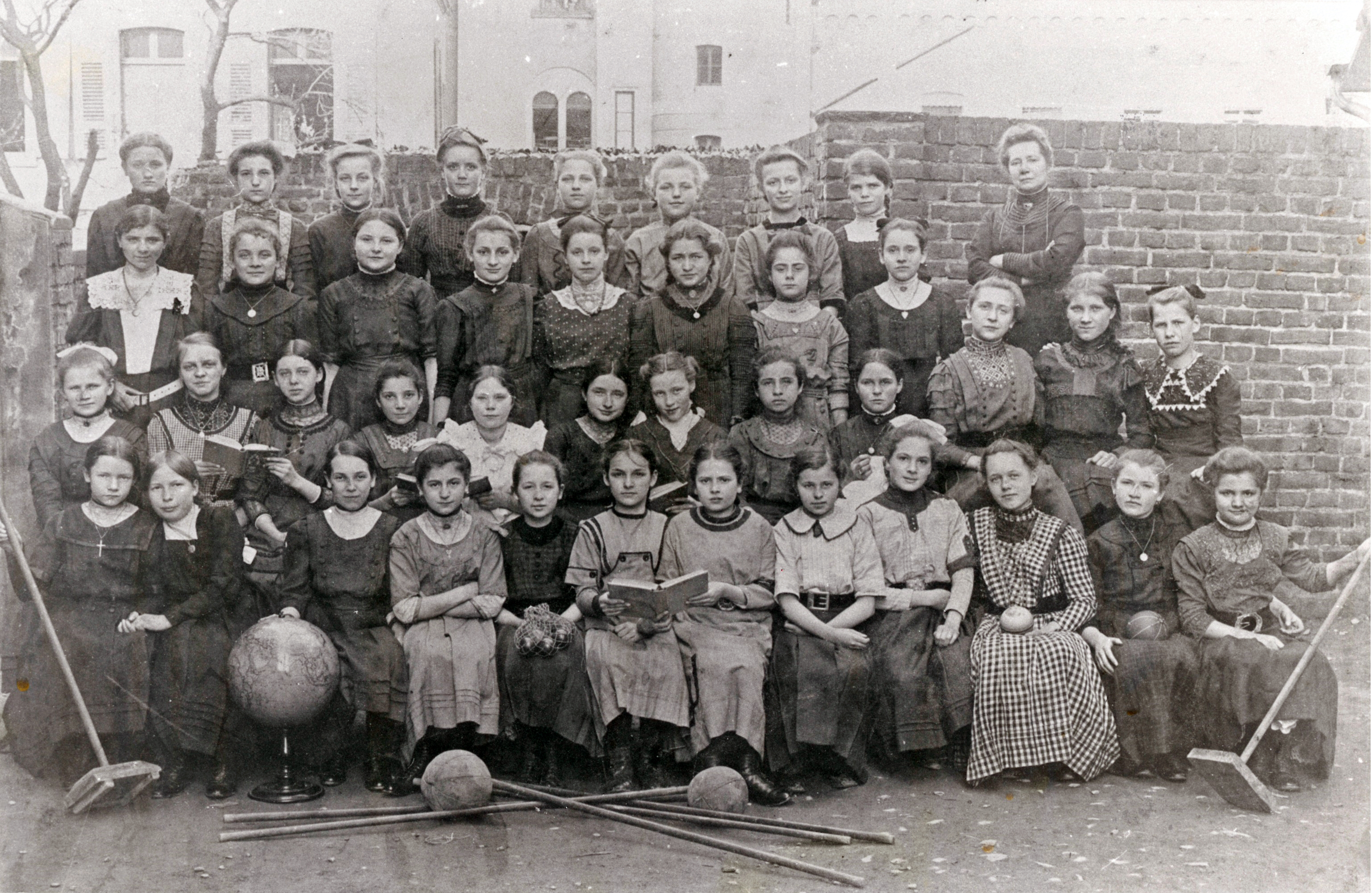 Helene Pagés (background right) as teacher in Boppard 1912